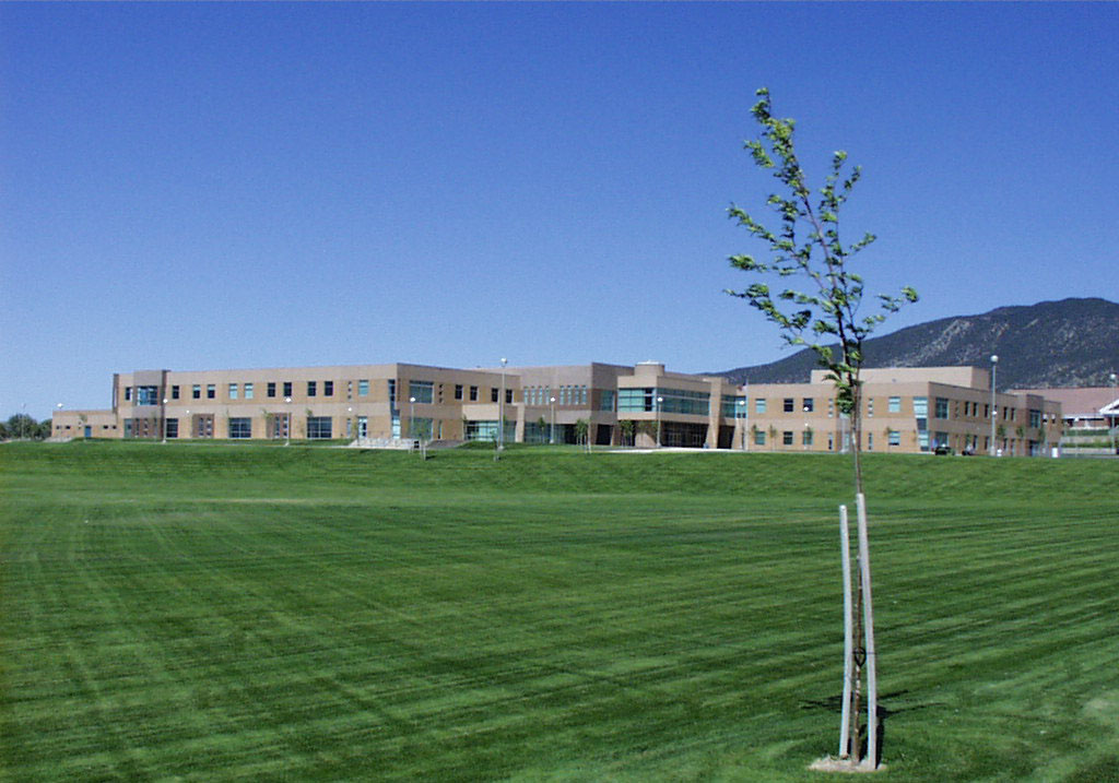 This photo is looking North East at Canyon View High School in Cedar City, Ut. CVHS is part of the Iron County School District.